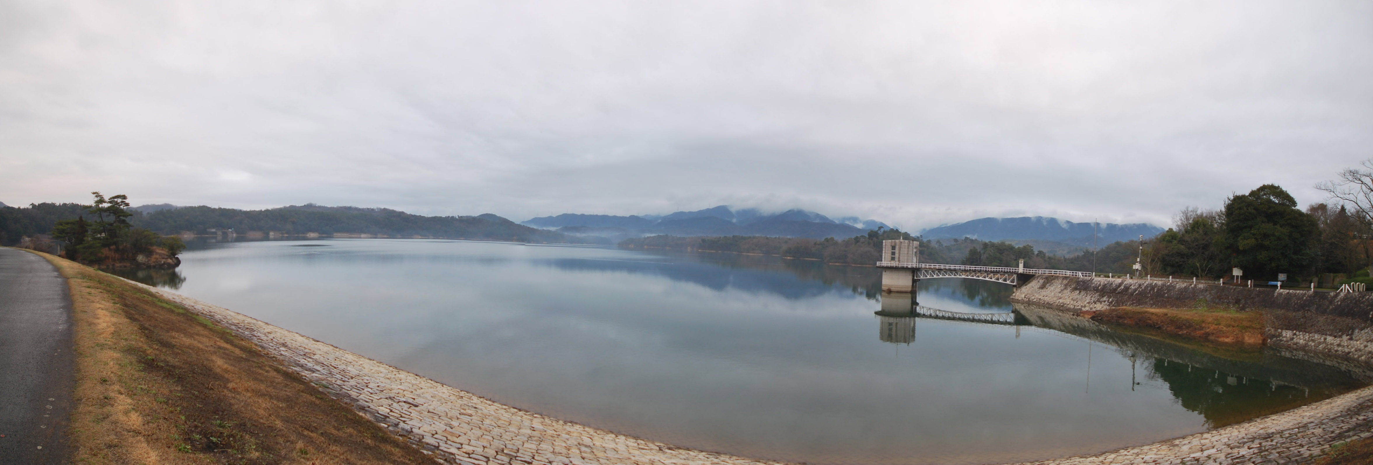 Panorama view of Manno-ike pond